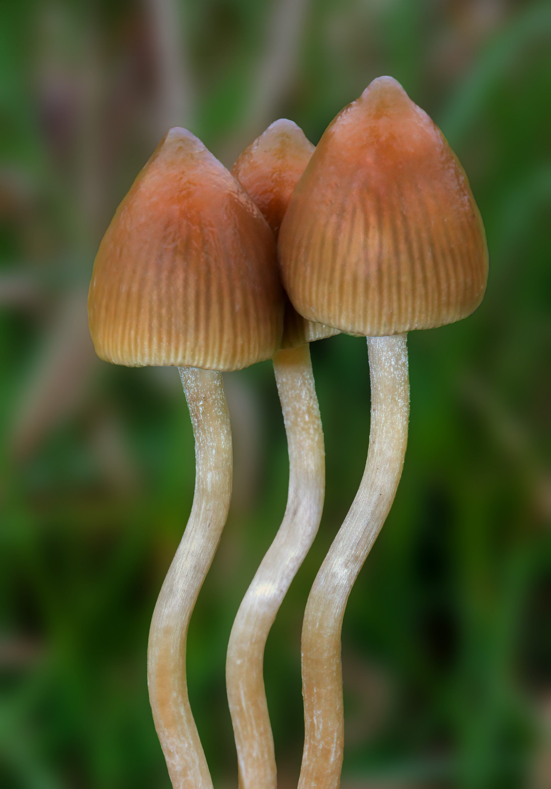 This image is Image Number 284884 at Mushroom Observer, a source for mycological images. This tag does not indicate the copyright status of the attached work. A normal copyright tag is still required. See Commons:Licensing.